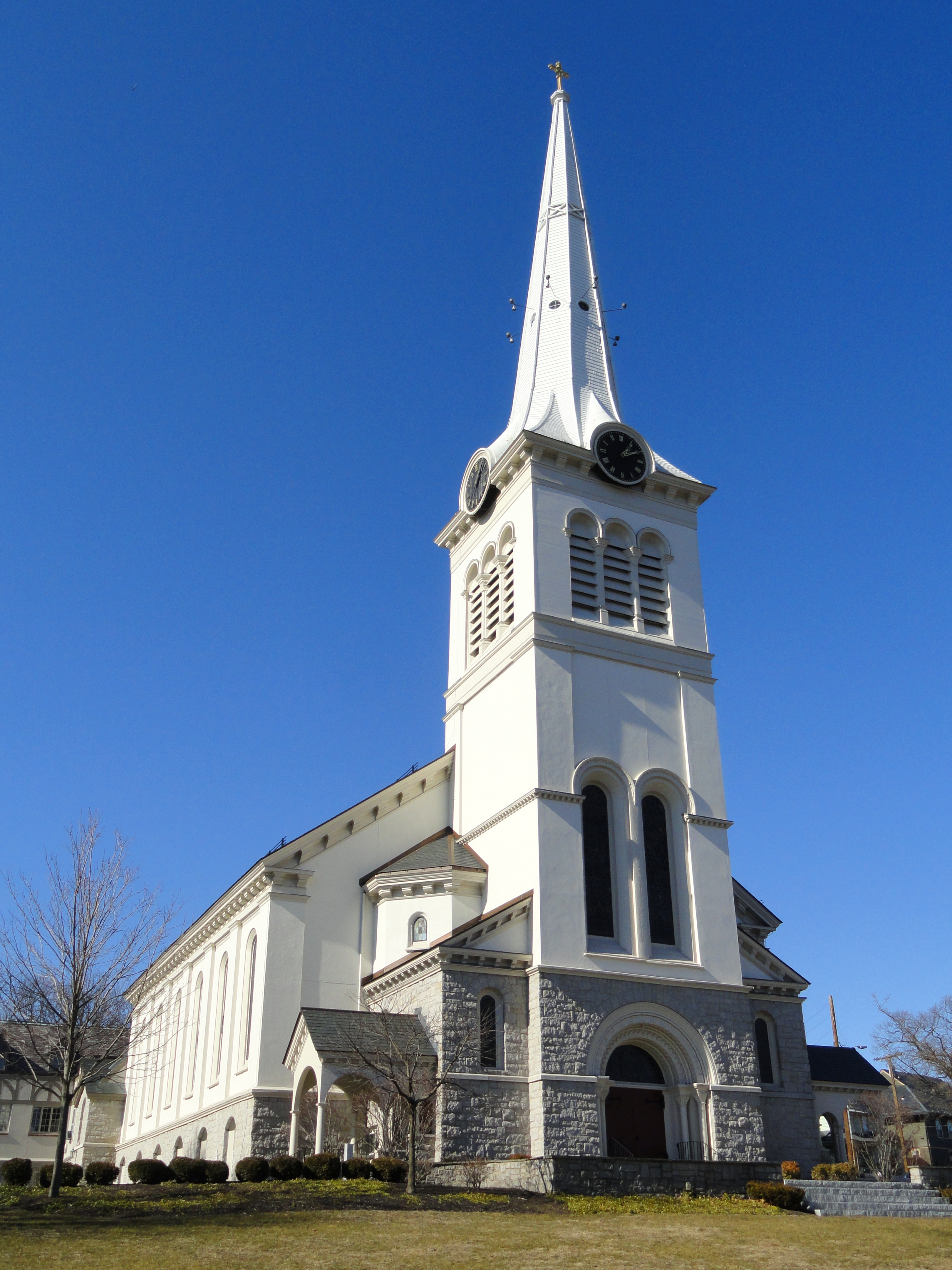 First Congregational Church, 21 Church Street, Winchester, Massachusetts, USA.